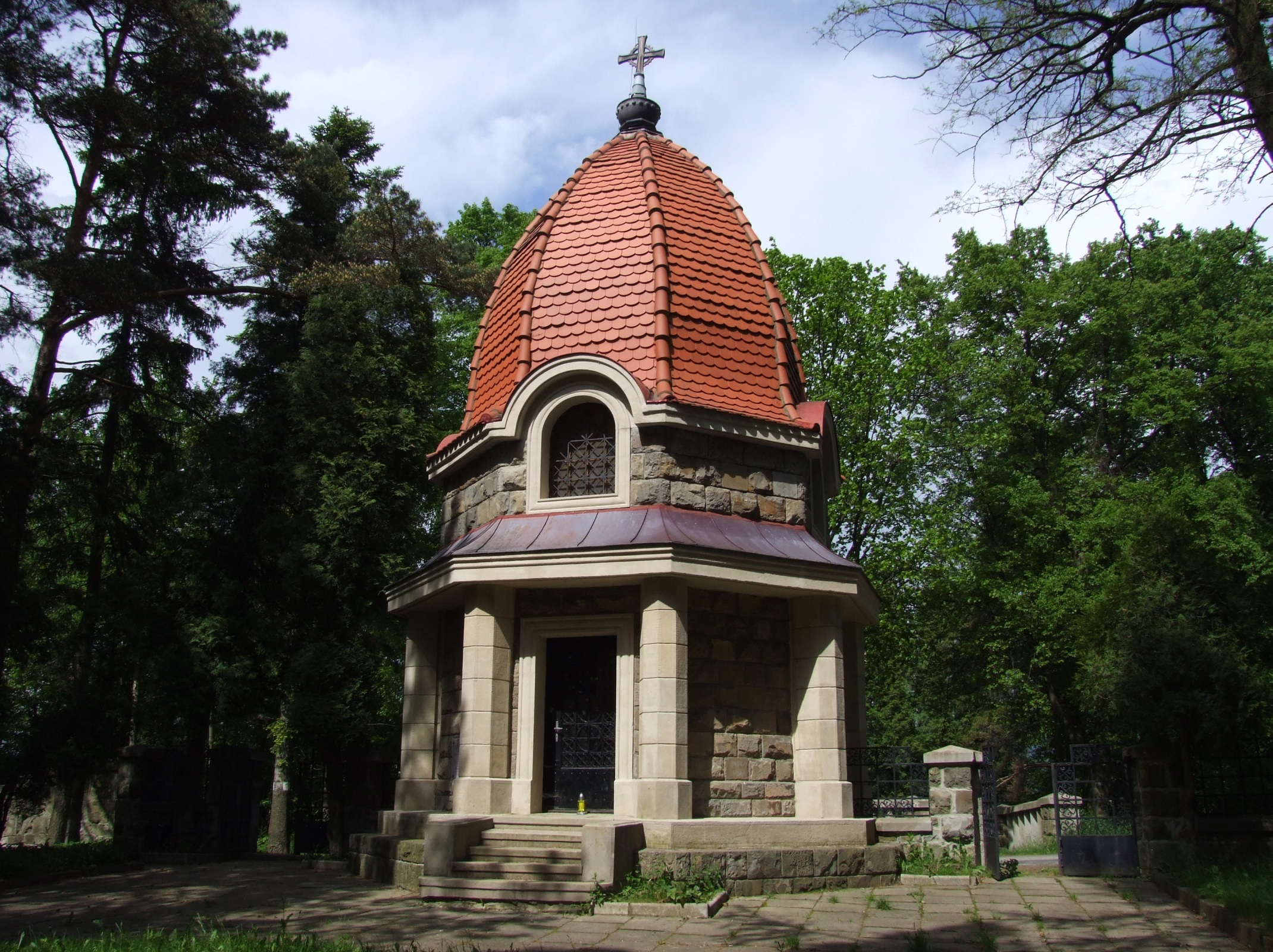 World War I Cemetery nr 368 in Limanowa-Jabłoniec